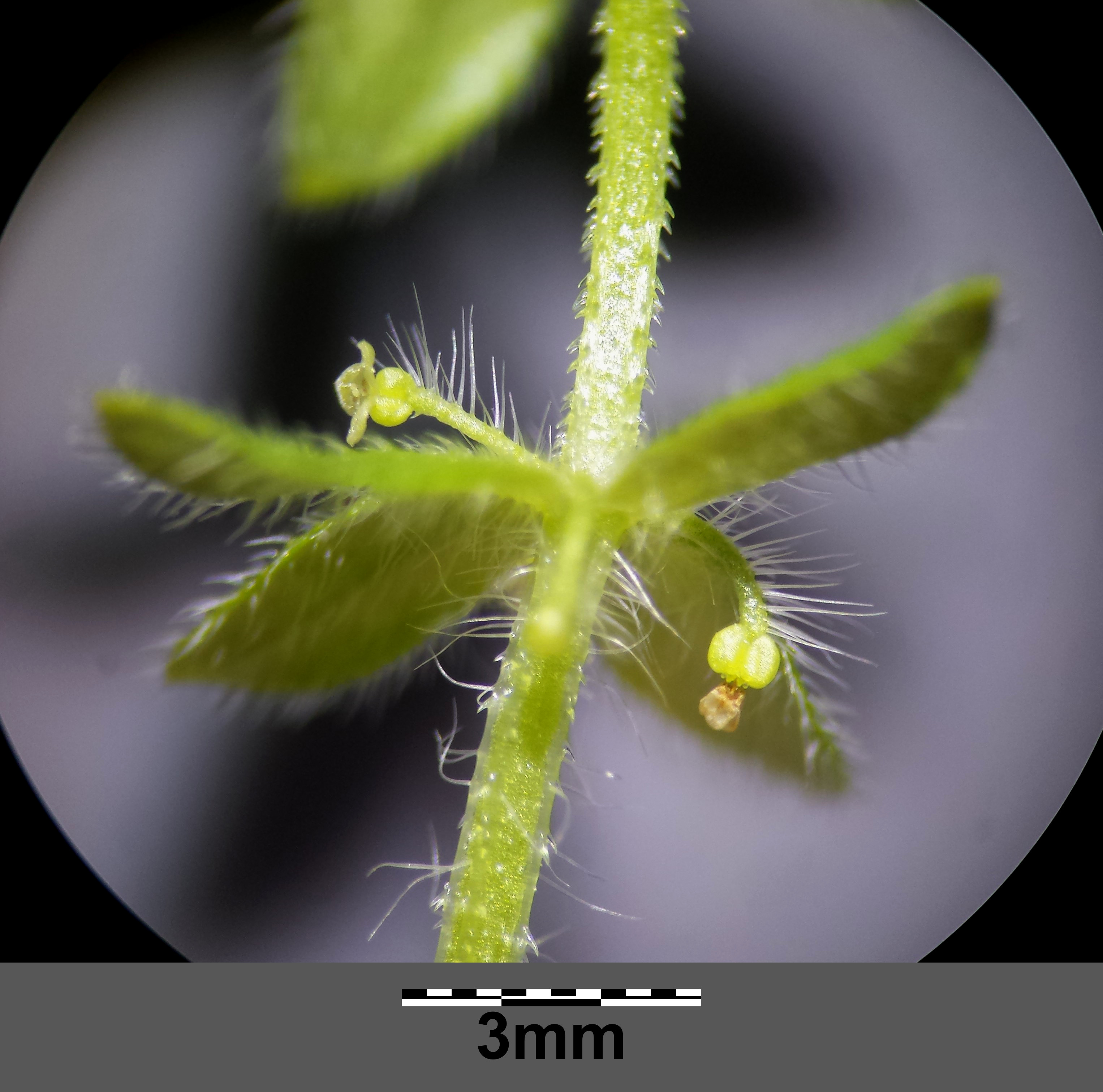 Inflorescence/infructescence Taxonym: Cruciata pedemontana ss Fischer et al. EfÖLS 2008 ISBN 978-3-85474-187-9 Location: Lange Lüsse near Marchegg, district Gänserndorf, Lower Austria - ca. 140 m a.s.l. Habitat: poor grassland